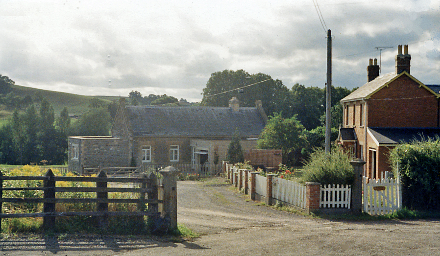 Cole (former) station, 1984 View NW, across the course of the ex-Somerset & Dorset Joint Bath - Evercreech Junction (right) - Templecombe (left) - Bournemouth line. The station had closed on 7/3/66 along with the whole famous route. By 1984 it appears to have become a private house.